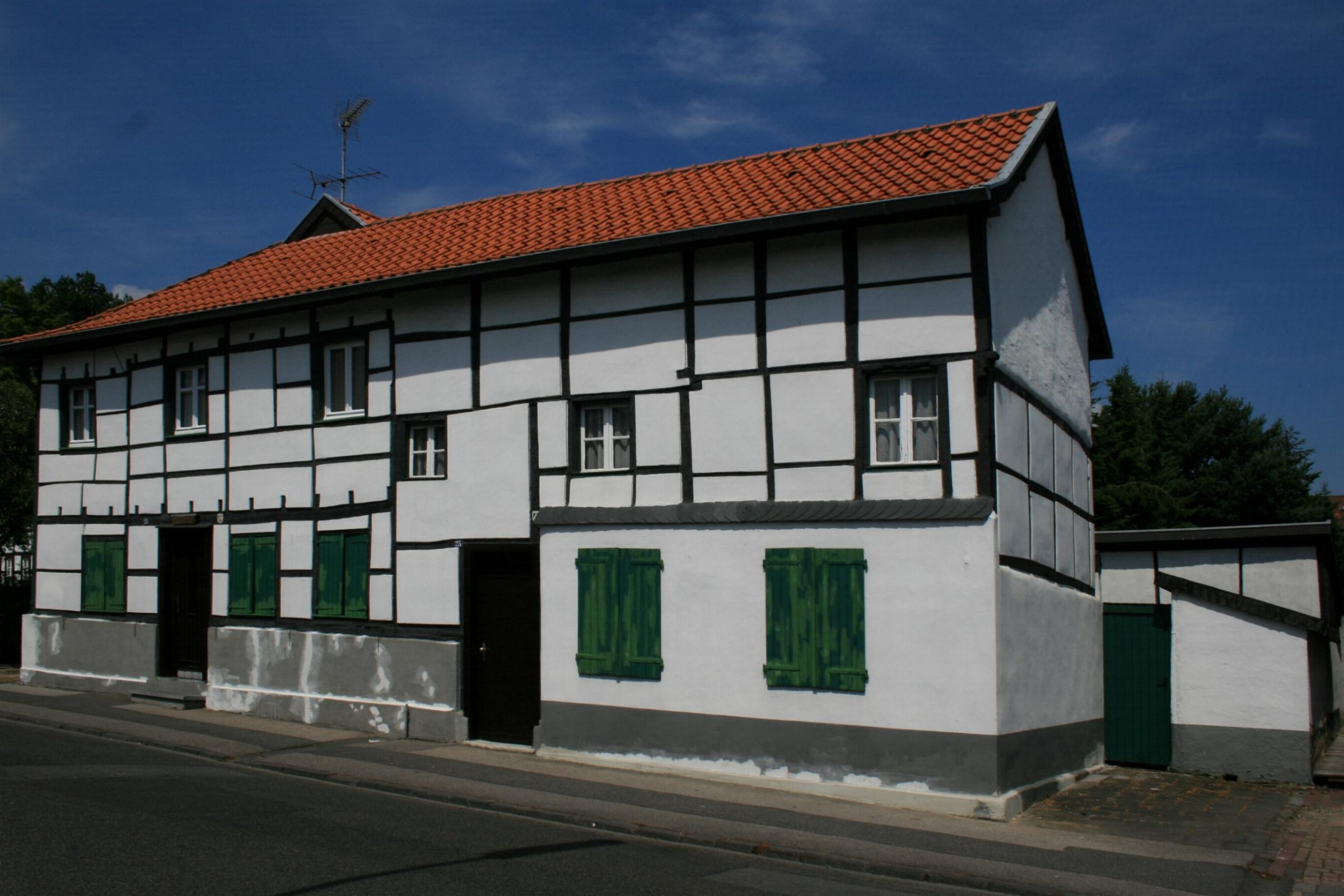 Cultural heritage monument No. U 011 in Mönchengladbach